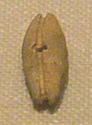 Net sinker of Jōmon Period Japan. Excavated at the Niyashiku site, Zaō, Miyagi, Zaō, Miyagi prefecture, Japan. Tōhoku History Museum.